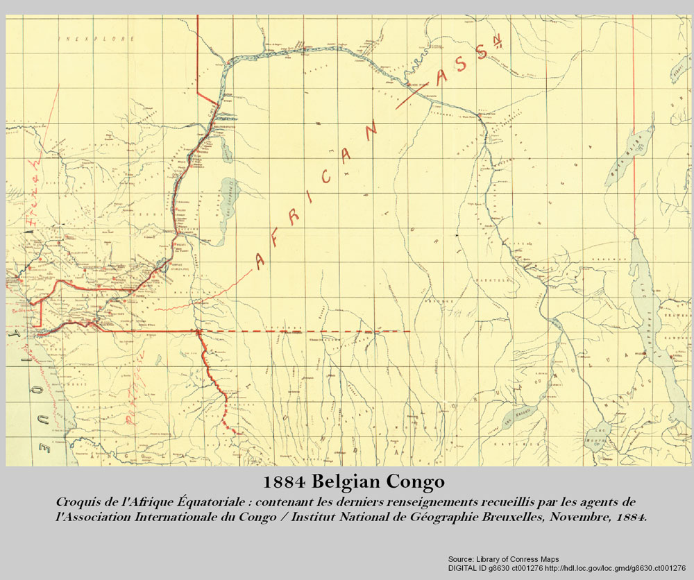 The Congo Free State in 1884.